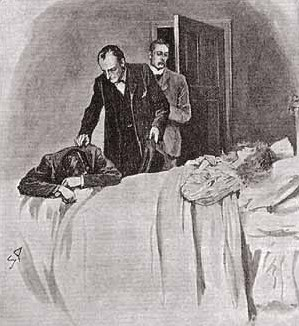 Sherlock Holmes in "The Adventure of the Missing Three-Quarter."